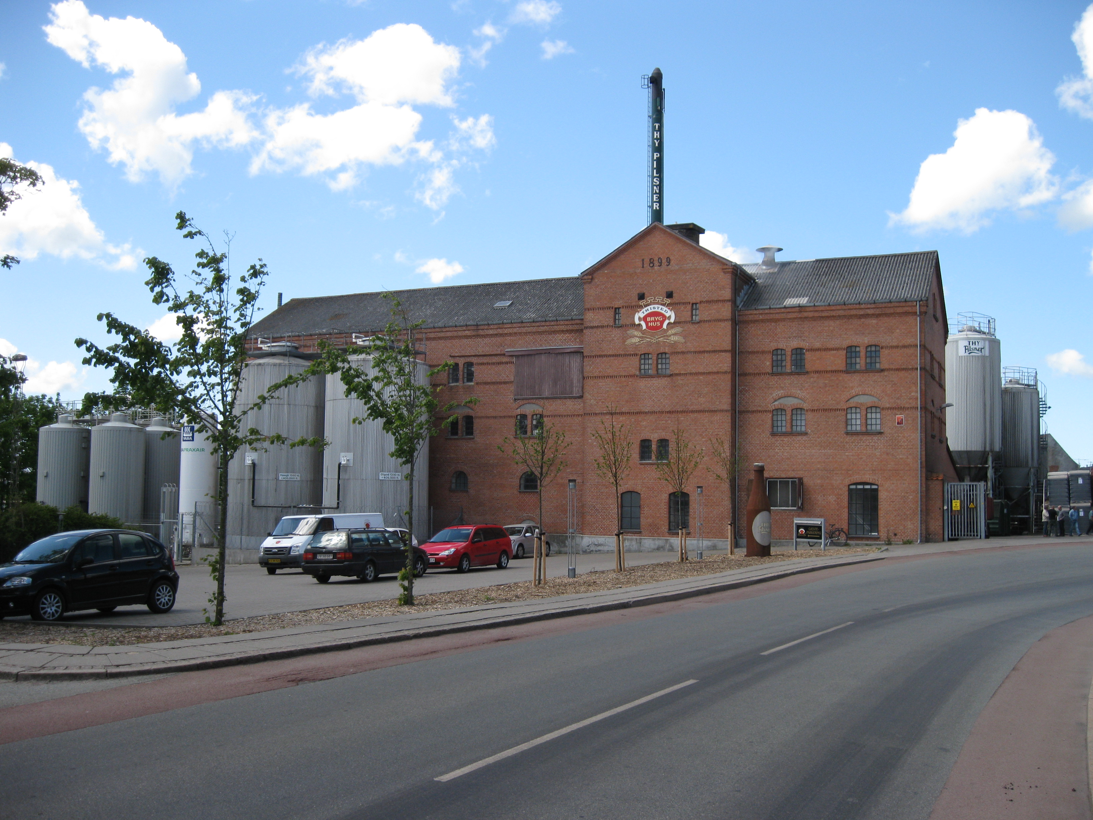 Thisted Brewery, Denmark